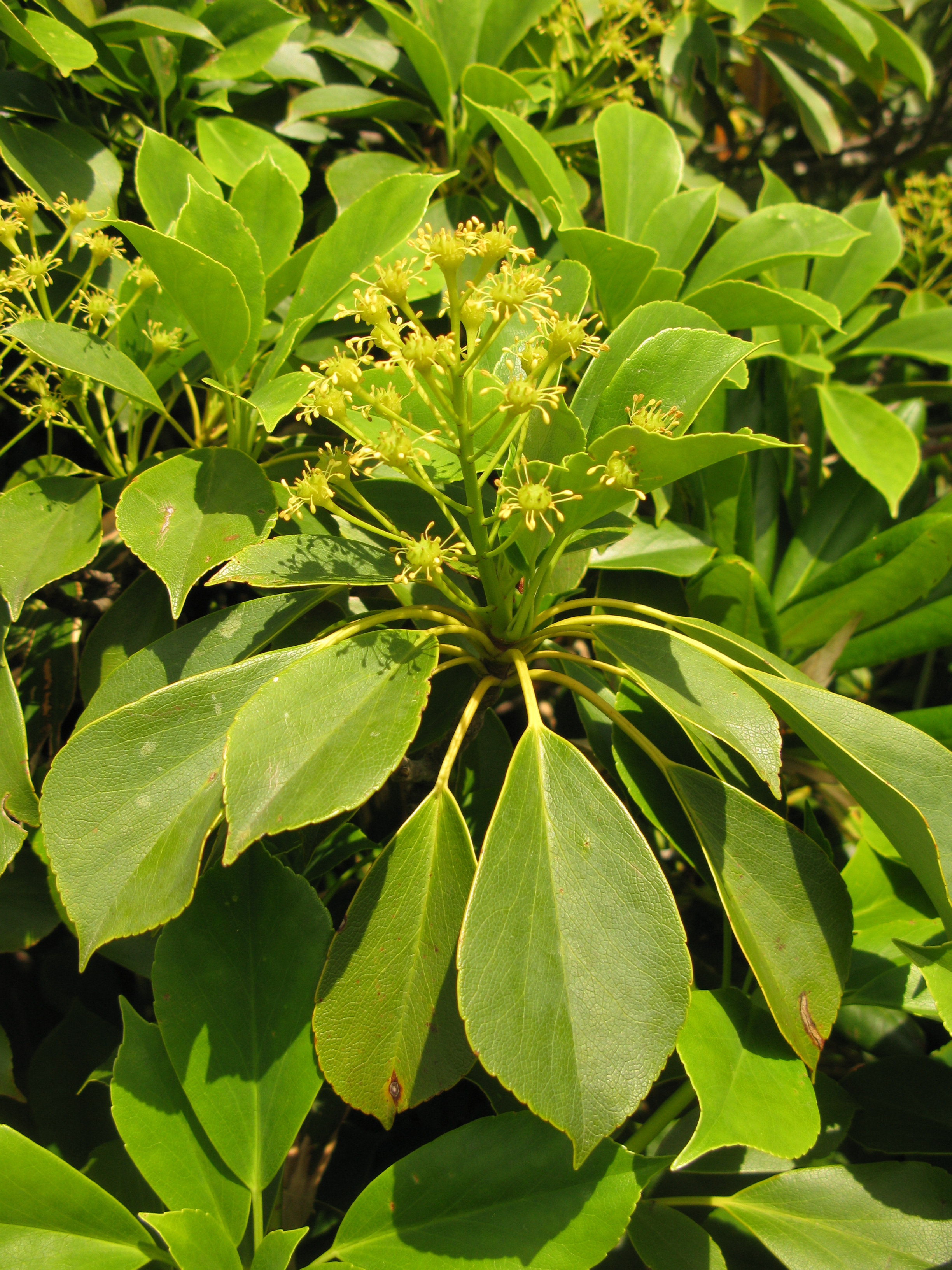 Trochodendron aralioides,Flowers,Aizu area,Fukushima pref.,Japan